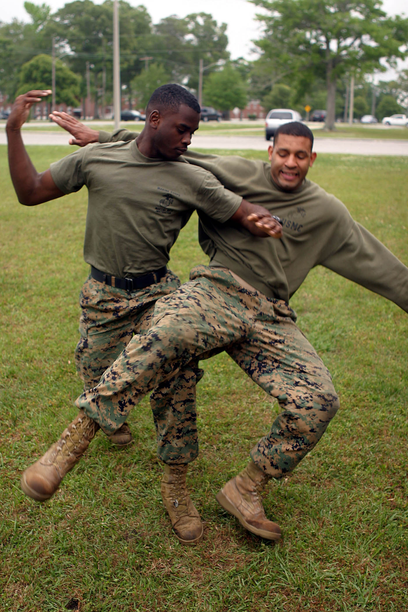 A Marine Corps Martial Arts Instructor for Logistics Company, Marine Corps Forces Special Operation Command, demonstrates a Marine Corps Martial Arts Program move on during a training session at Marine Corps Base Camp Lejeune, North Carolina.